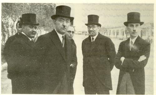 Mohammad Ali Foroughi is second people from right side.